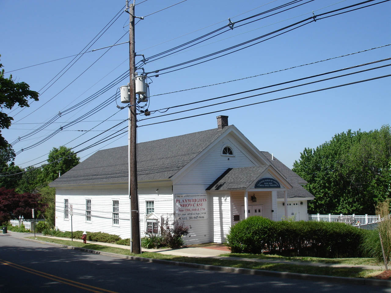 I took this photo of the Leonia Civil War Drill Hall myself on May 30, 2007.